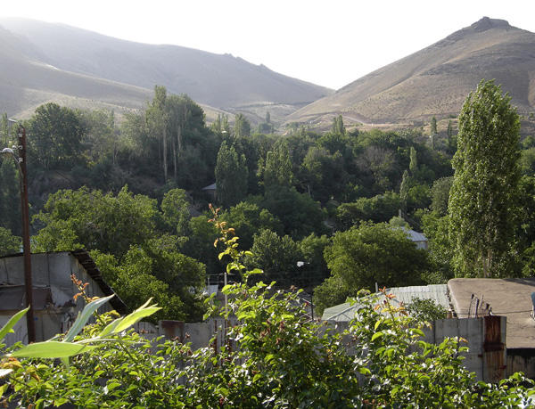 Damavand city, Tehran province